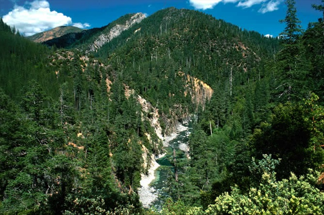 The Chetco River in the Kalmiopsis Wilderness, SW Oregon. In the Klamath Mountains and within the Rogue River-Siskiyou National Forest. Photo by Lee Webb.